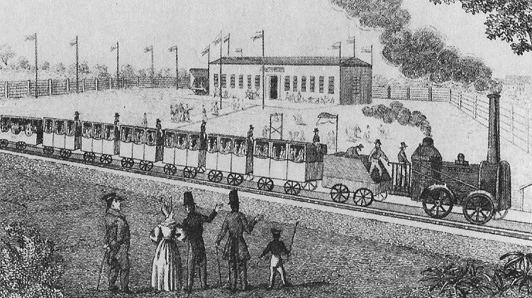 Steam locomotive Blitz with train ready for the departure in Althen. Contemporary engraving.